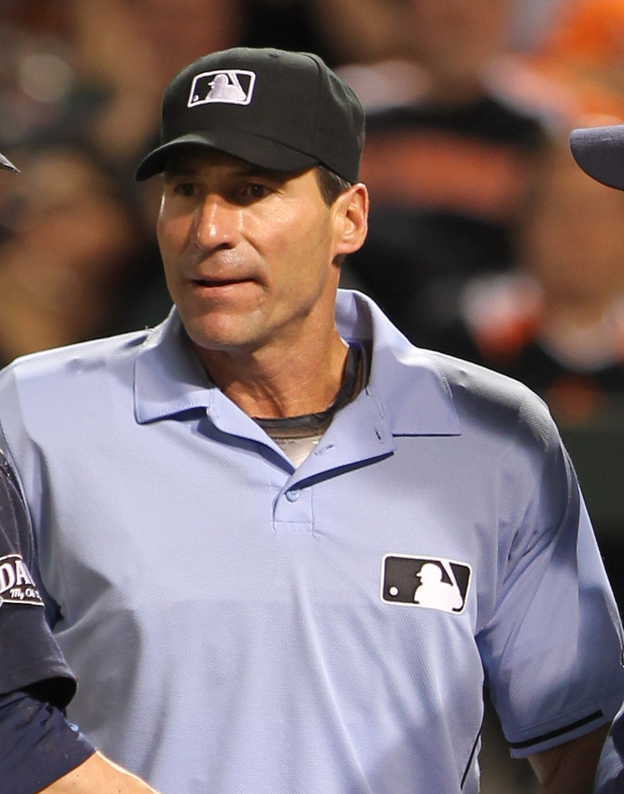 MLB umpire Ángel Hernández in 2011.